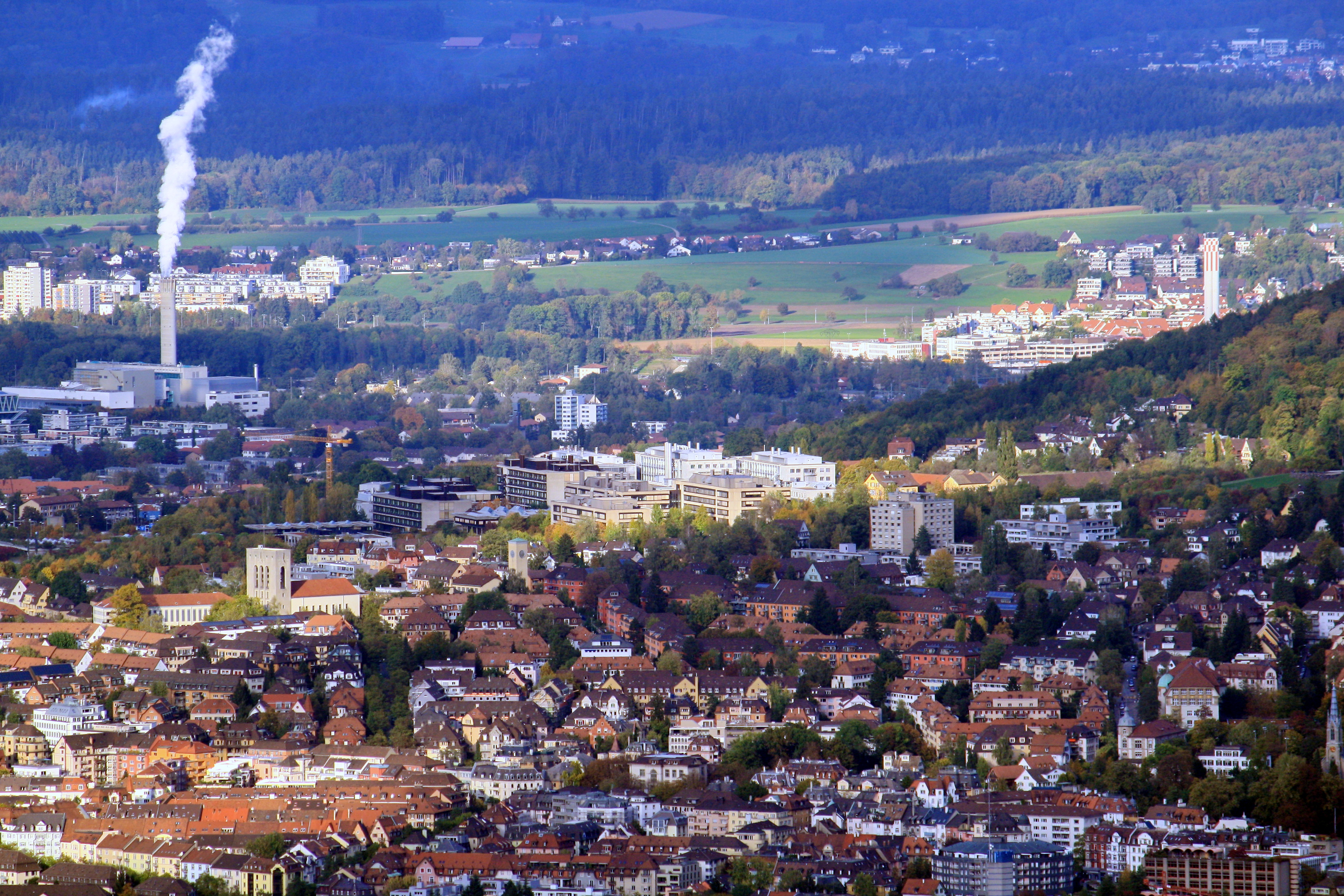 Zürich-Oberstrass, Irchelpark faculty and Oerlikon, as seen from Uetliberg Aussichtsturm, Category:Wallisellen and Opfikon in the background.